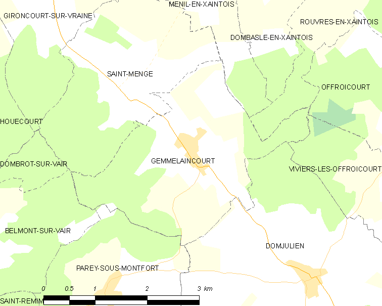 Map of French municipality Gemmelaincourt